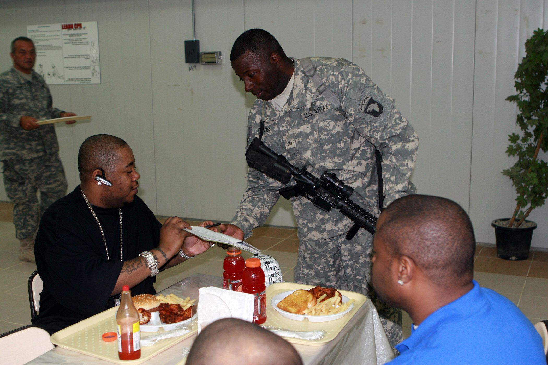 Rap artist Twista autographs a book for Sgt. Ronald Davis, Company A, 626th Brigade Support Battalion, 3rd Brigade Combat Team, 101st Airborne Division at the Camp Striker Dining Facility, April 9.